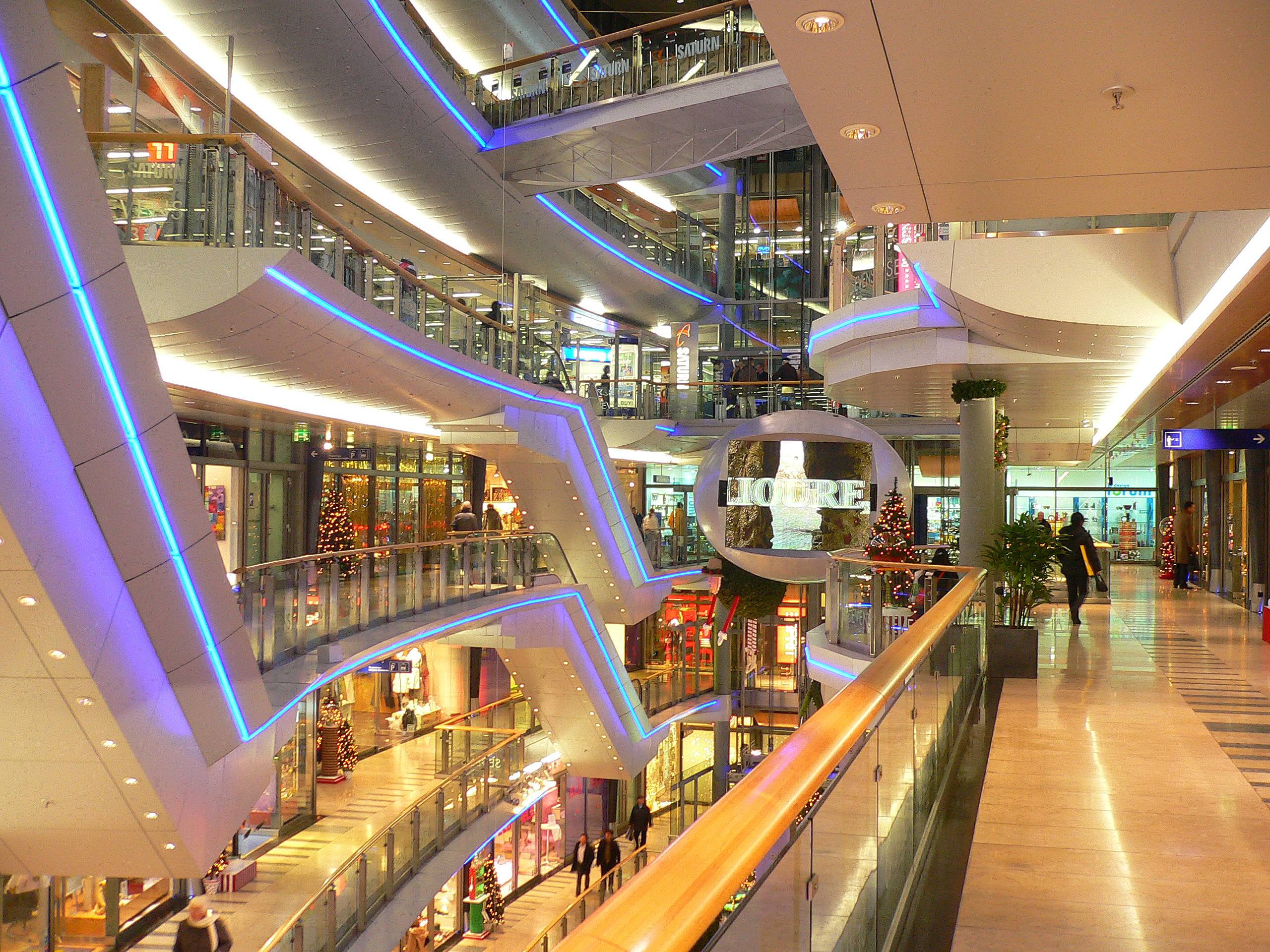 shopping area in Düsseldorf ,featuring a giant display screen and decorated for X-mas 2005